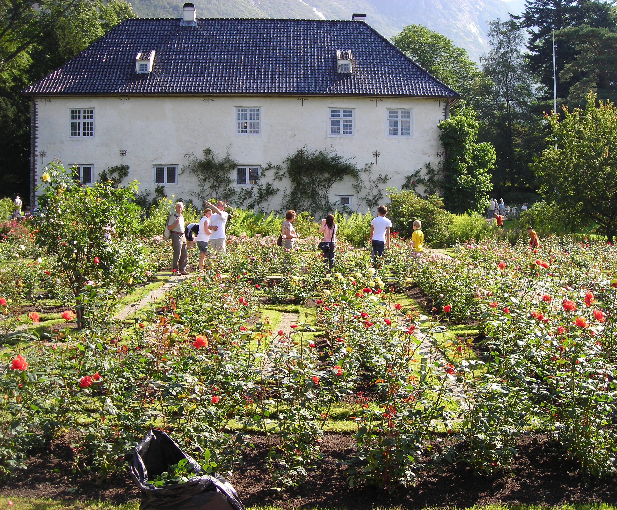 Baroniet Rosendal with the famous rose garden in front